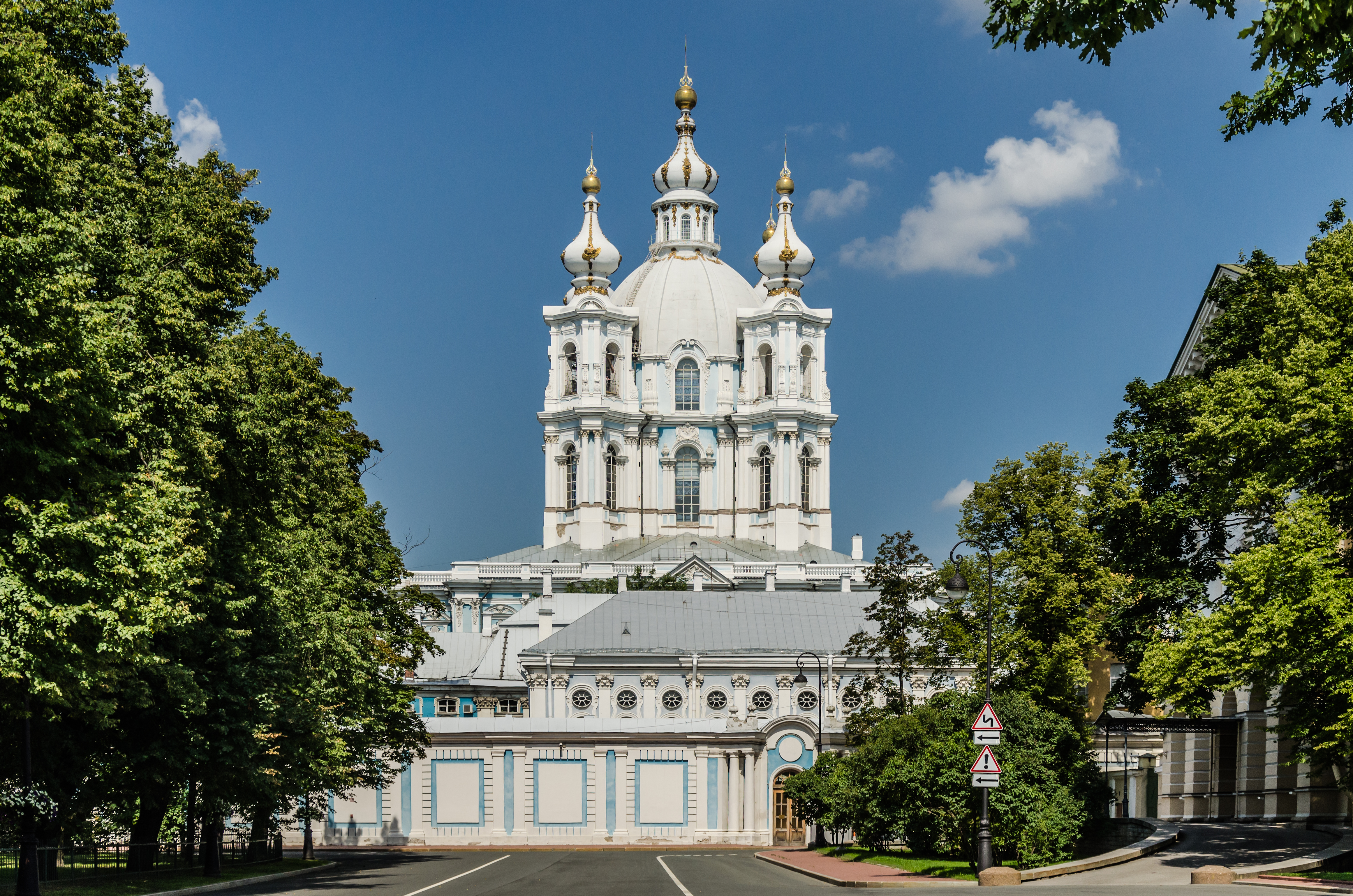 The Smolny Cathedral in Saint Petersburg